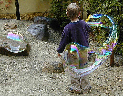 huge soap-bubble made by a child